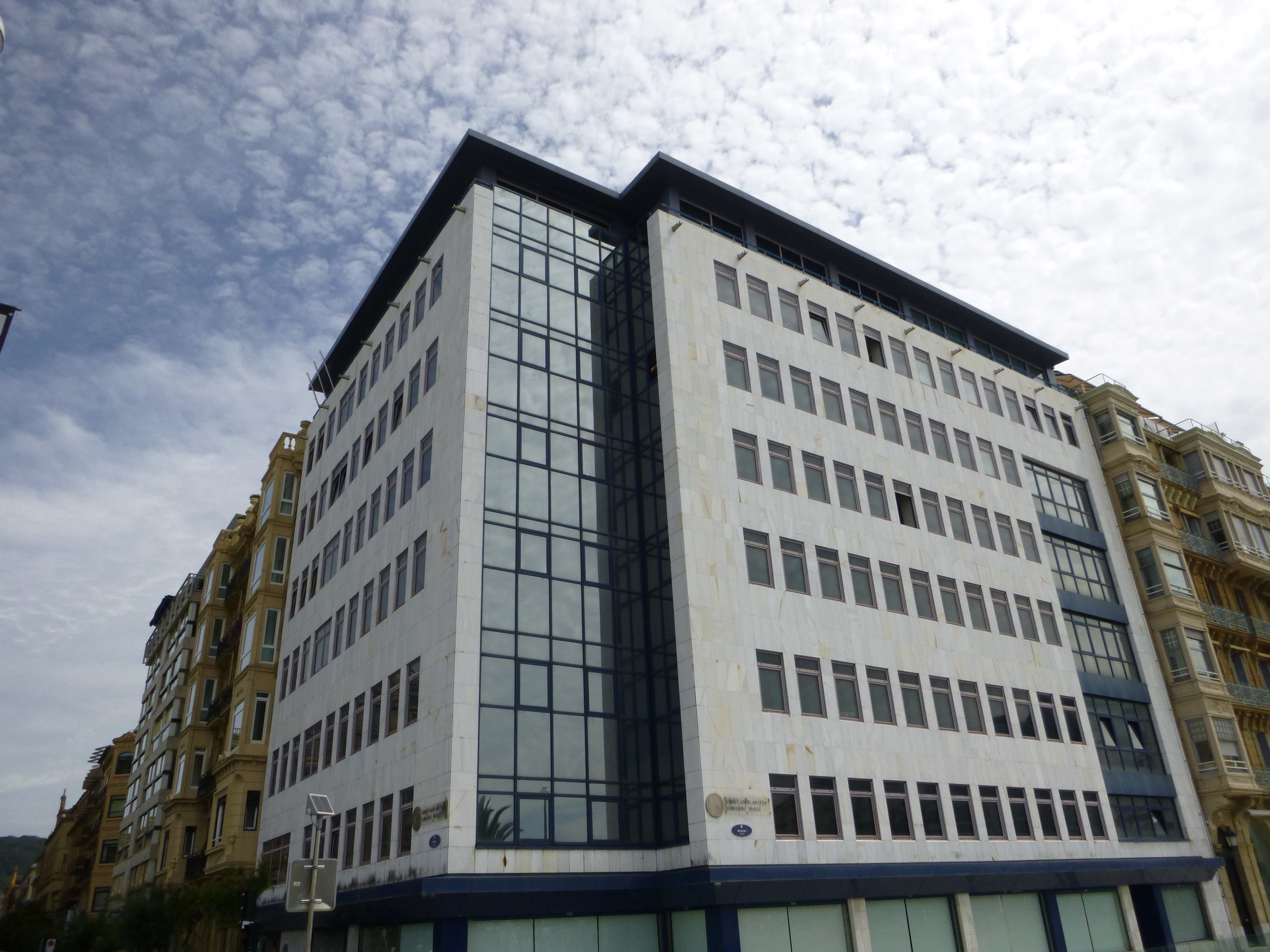 Basque Govern building in Donostia.